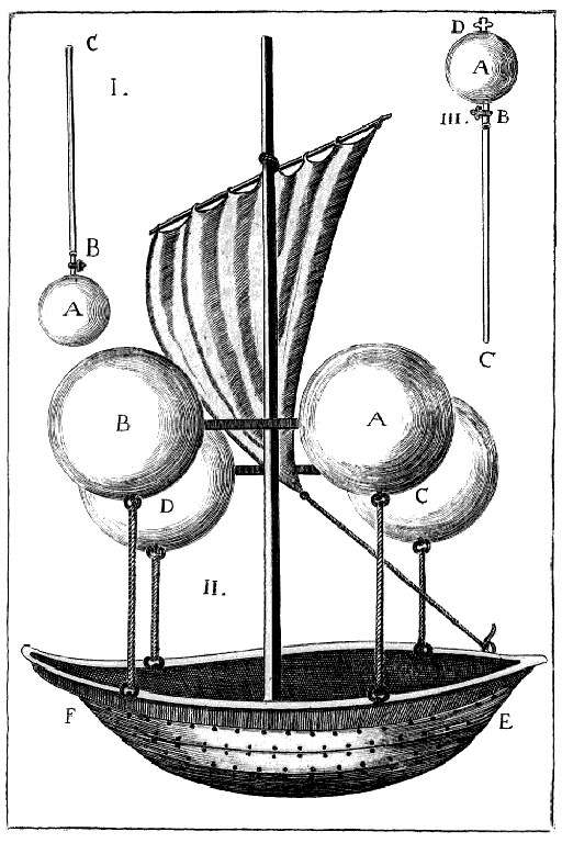 Francesco Lana de Terzi's vacuum airship sketch